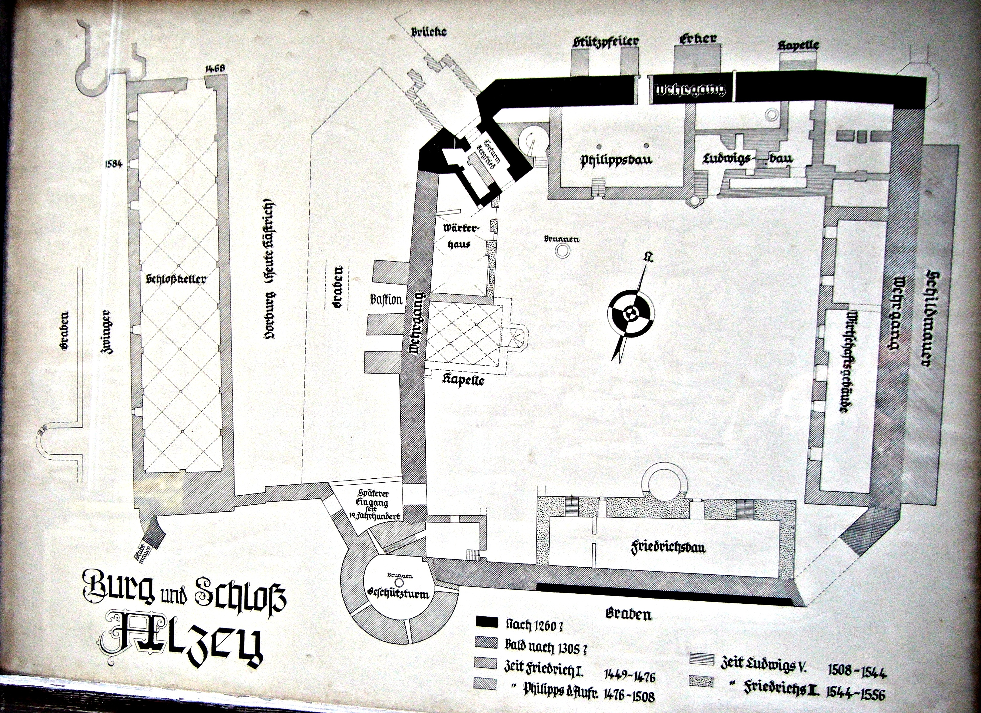 Plan des Alzeyer Schlosses, aufgenommen auf Tafel im Schlosshof